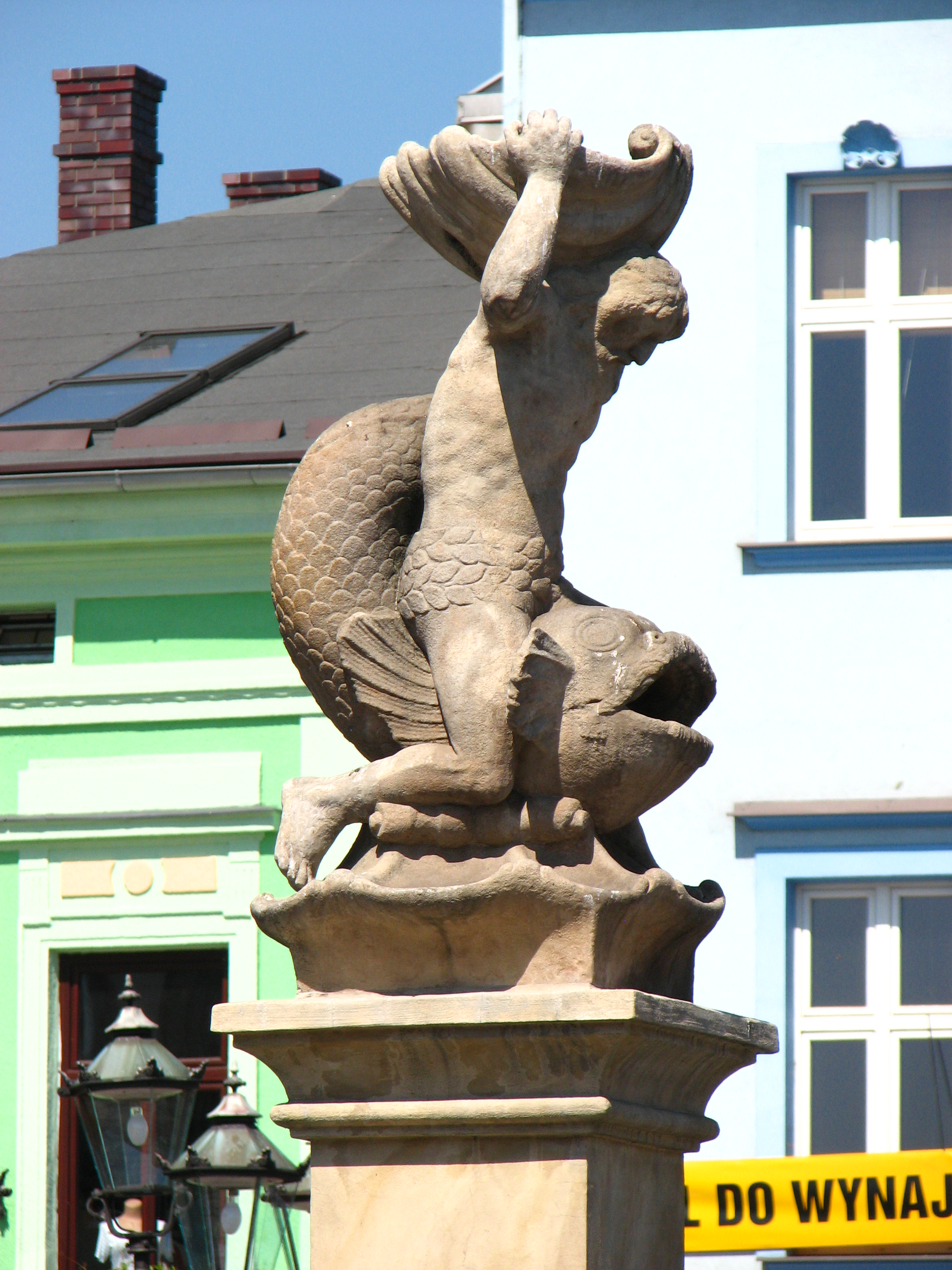 Skoczow - fountain on the Market Square - the stone statue of Jonah (called Triton) from the end of 18th century, work by Waclaw Donay